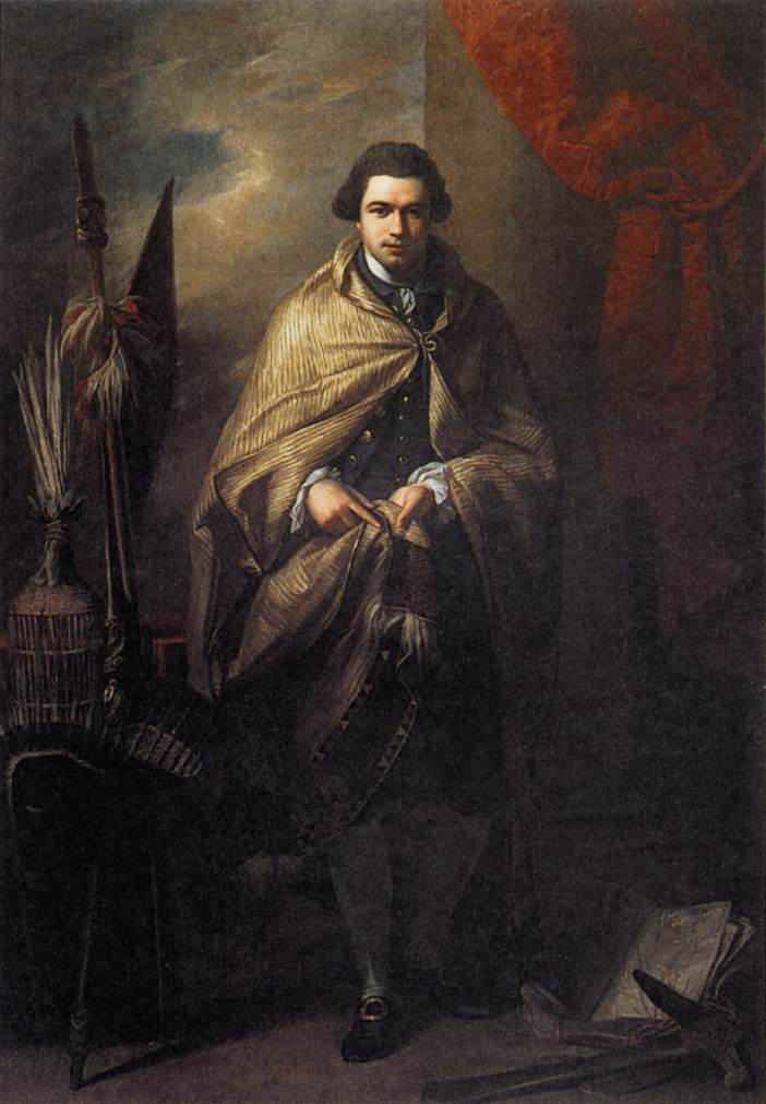 Portrait of Joseph Banks (1743-1820)